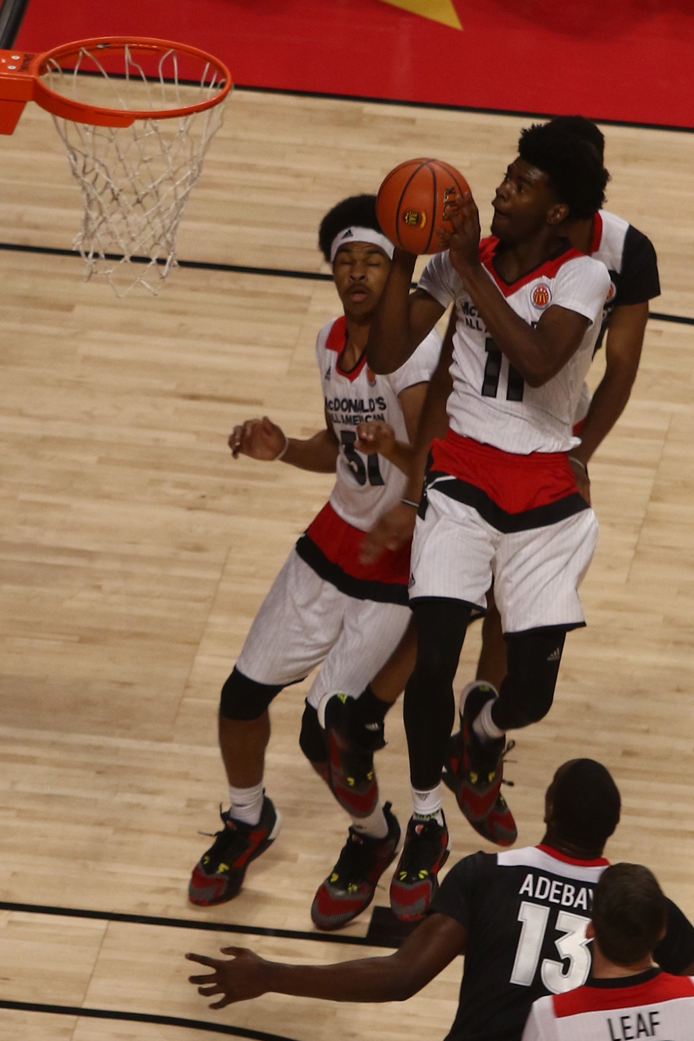 Josh Jackson at the w:2016 McDonald's All-American Boys Game